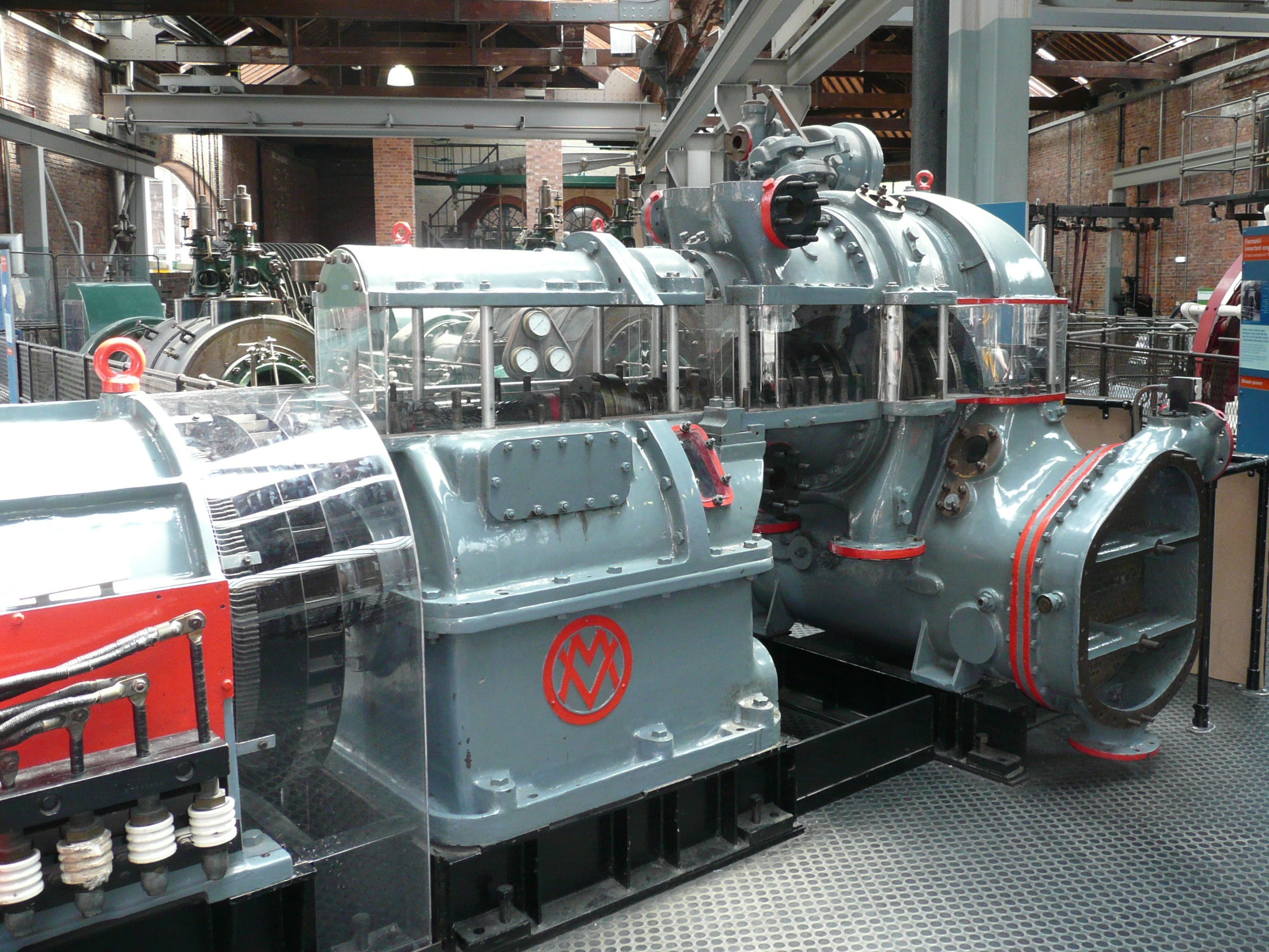 Metropolitan-Vickers 375 KW steam turbo-alternator on display at the Manchester Museum of Science and Industry